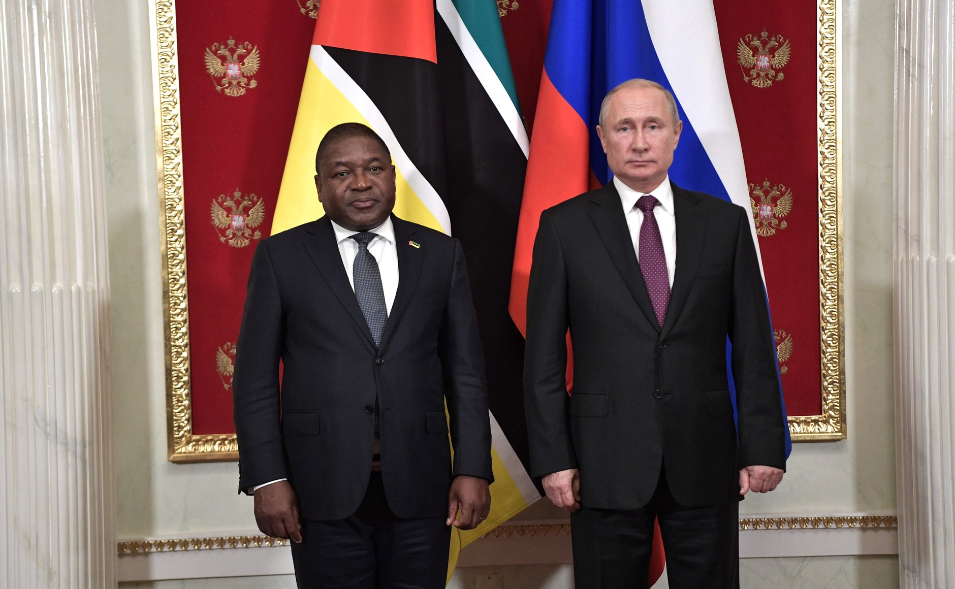 Vladimir Putin held talks at the Kremlin with President of Mozambique Filipe Nyusi, who is in Russia on an official visit.